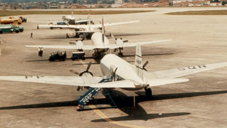 Saab Scania PP-SQN (nearest) of VASP at Sao Paolo Congonhas